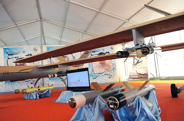 Iranian Shahed 129 UCAV (first gen) with Sadid-345 glide bombs in the foreground and Sadid-1 ATGMs elsewhere. Picture taken at an IRGC-ASF arms expo